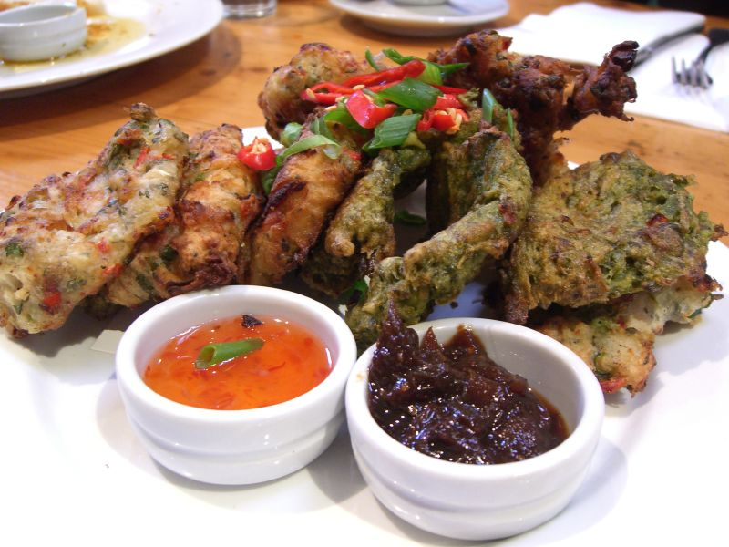 Stamp-and-Go and Callaloo Fritters (Jamaican cuisine) from Babble On Babylon Melbourne Australia. Served with sweet chilli sauce and a plum chutney. photo by avlxyz (Flickr) attribution required Licensing share alike